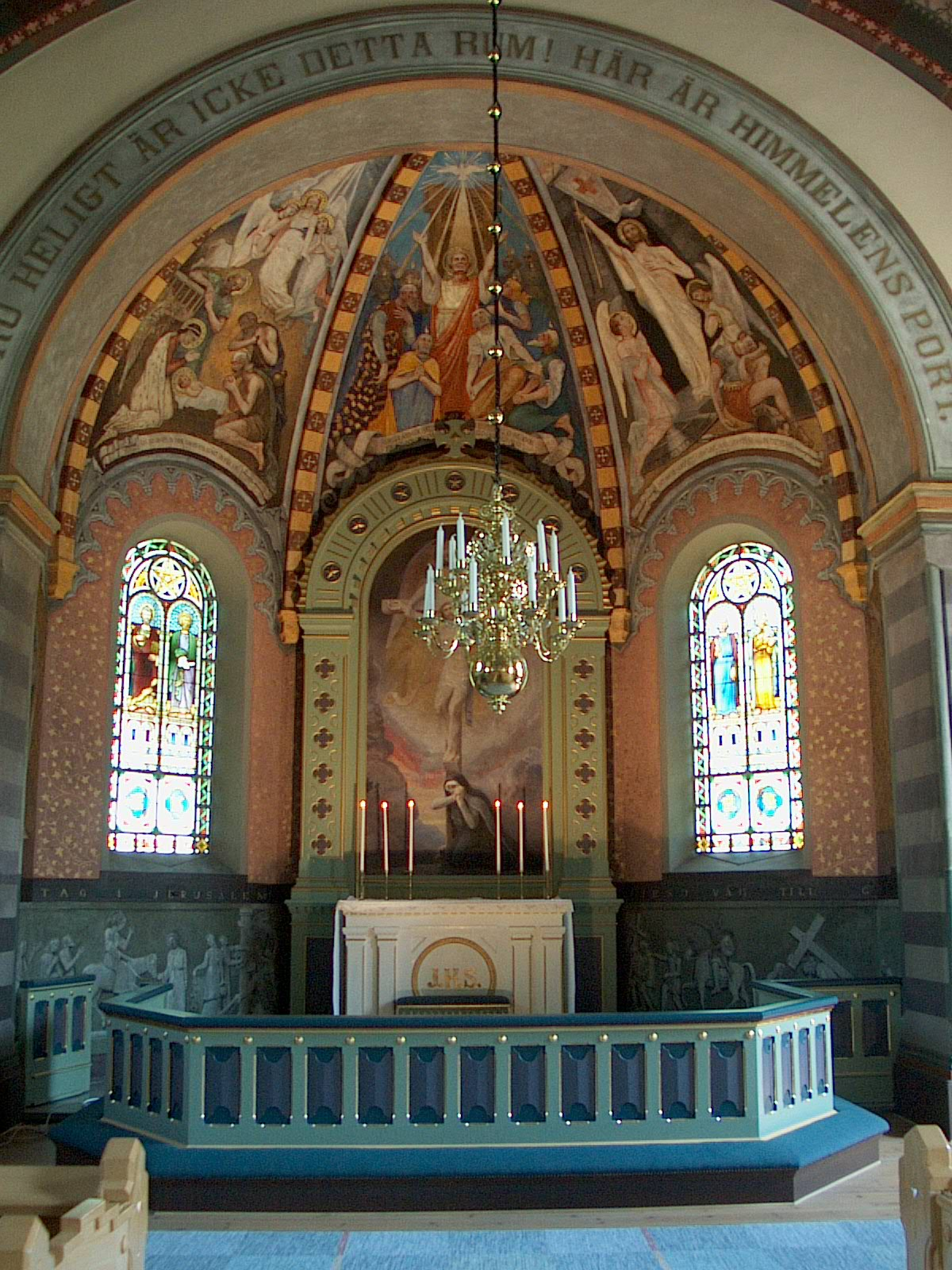 Appuna Church.The chancel with paintings and altarpieces painted by Ludvig Frid.